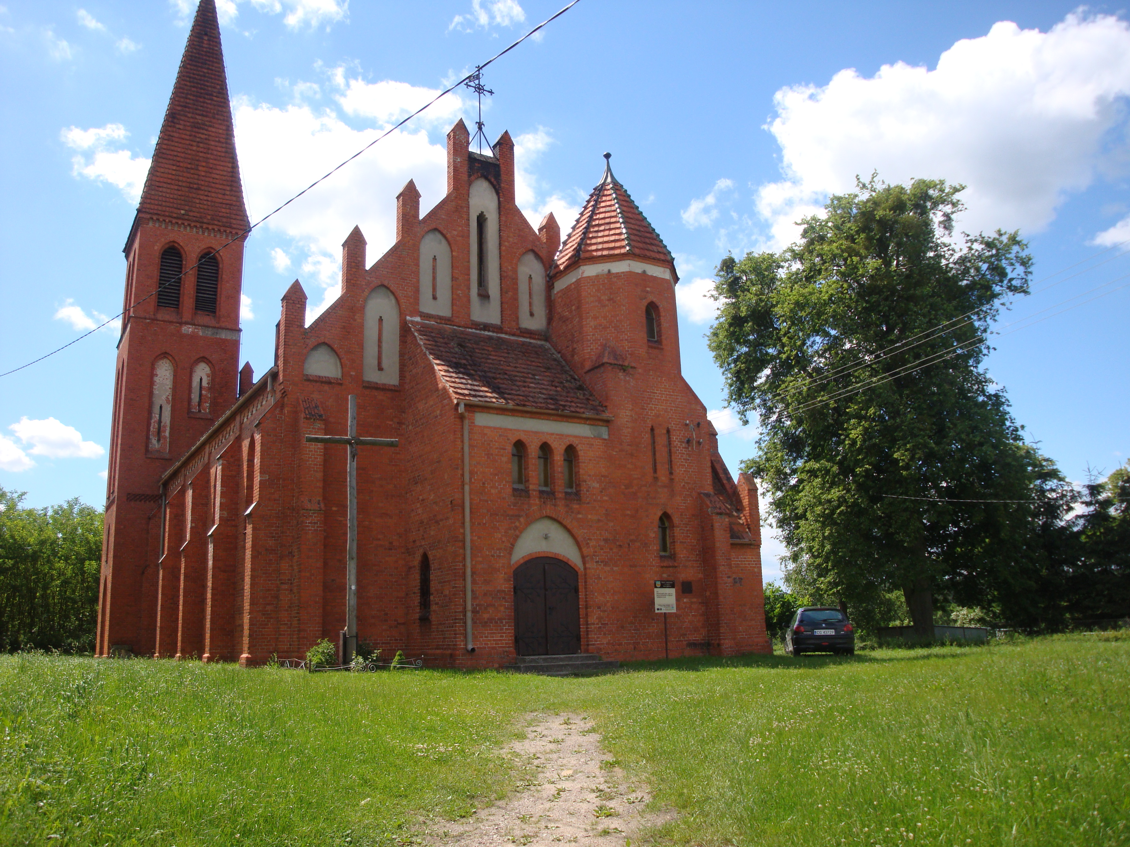 Church in Piaski, near Grudziądz, Poland. Build in 1900